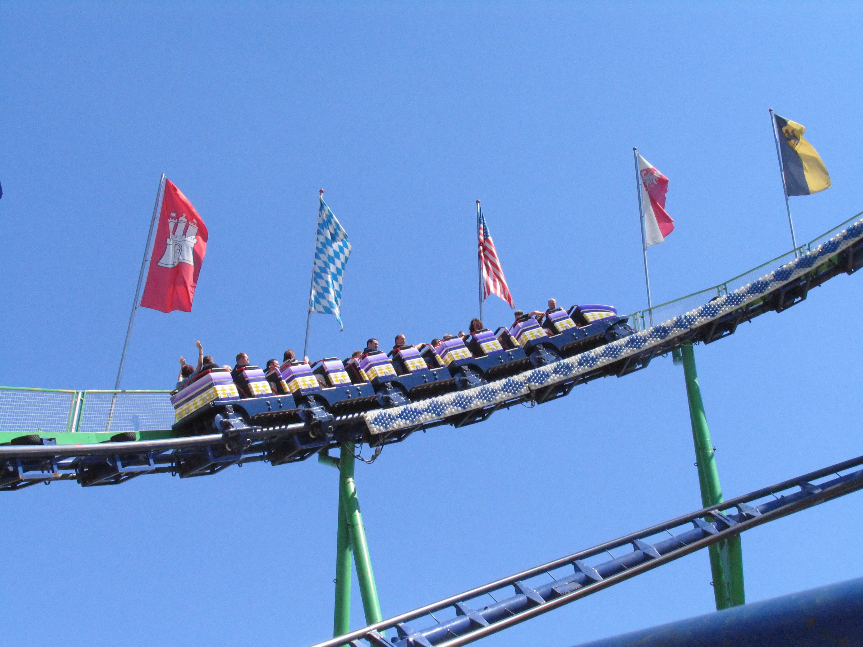 Lift hill of Alpinabahn